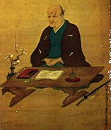 Scholar Kaibara Ekiken